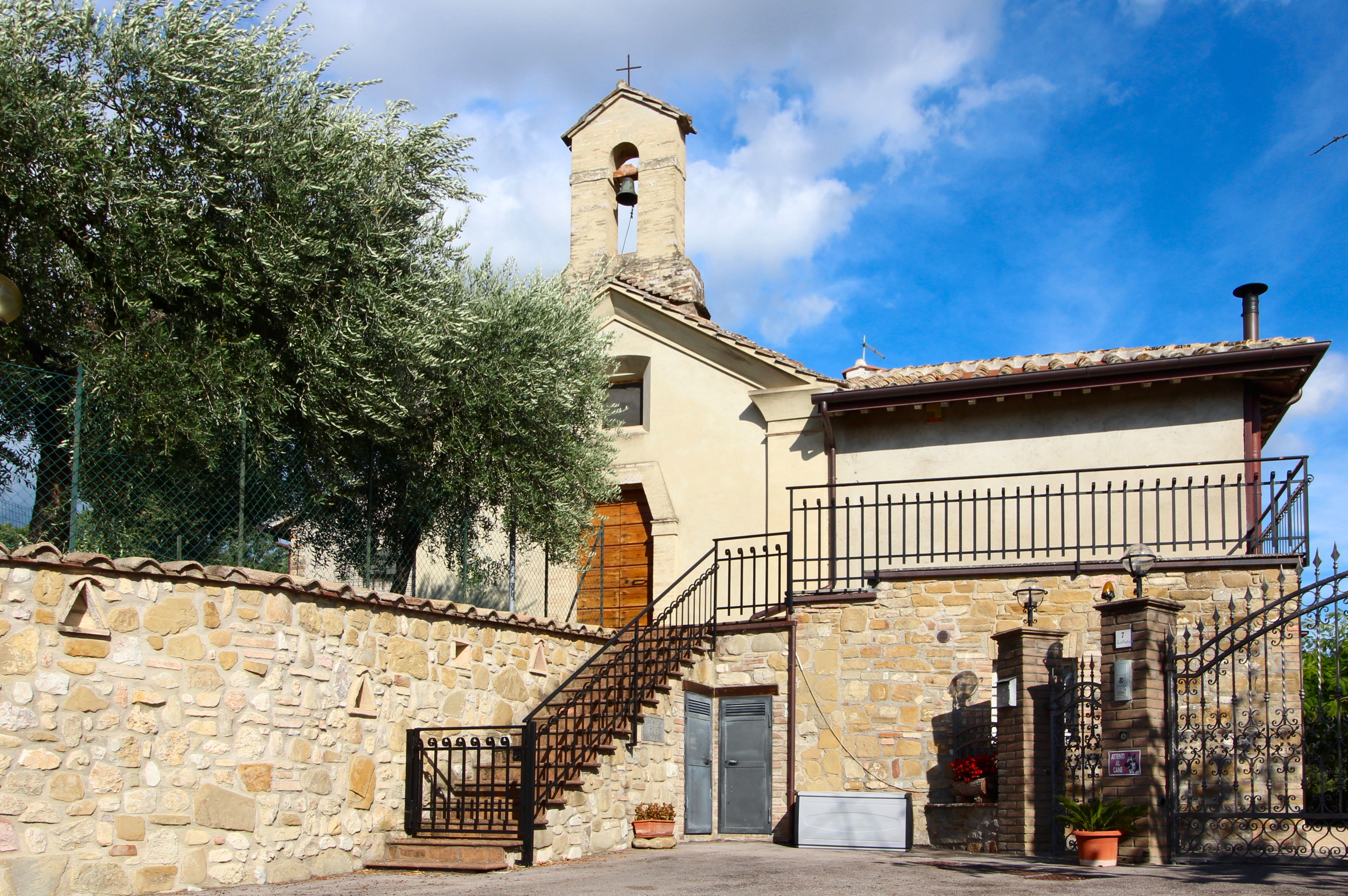 Church Santissimo Crocifisso, Tordibetto, hamlet of Assisi, Province of Perugia, Umbria, Italy